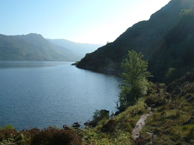 Sron Ghaothar on Loch Morar. A wonderful view of the point which I believe carries on at the same slope down into the loch for around 250m. The footpath in the foreground continues about that level and crosses the promitary on the first level part up from the loch. Stunningly beautiful.